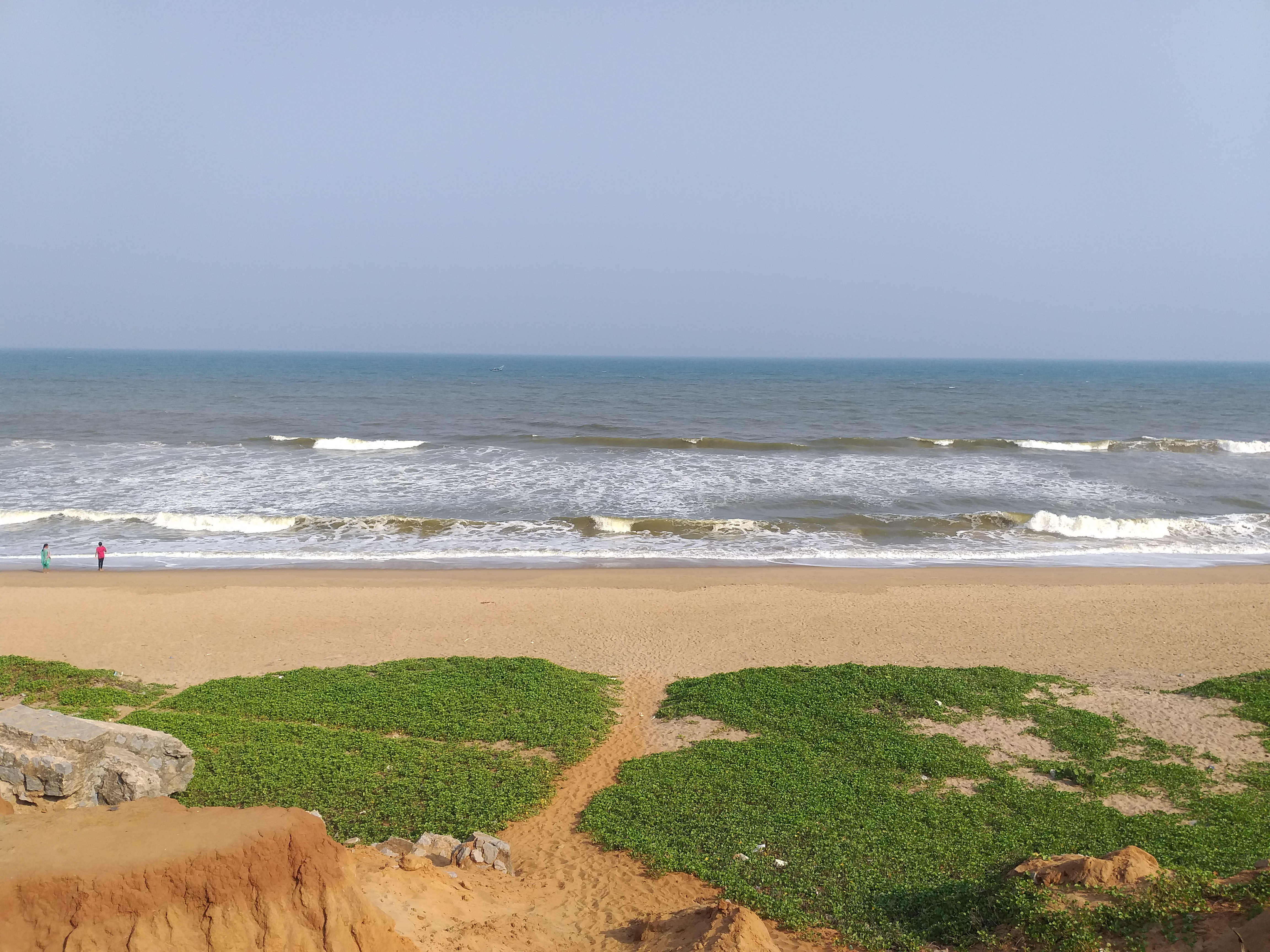 Bay of Bengal